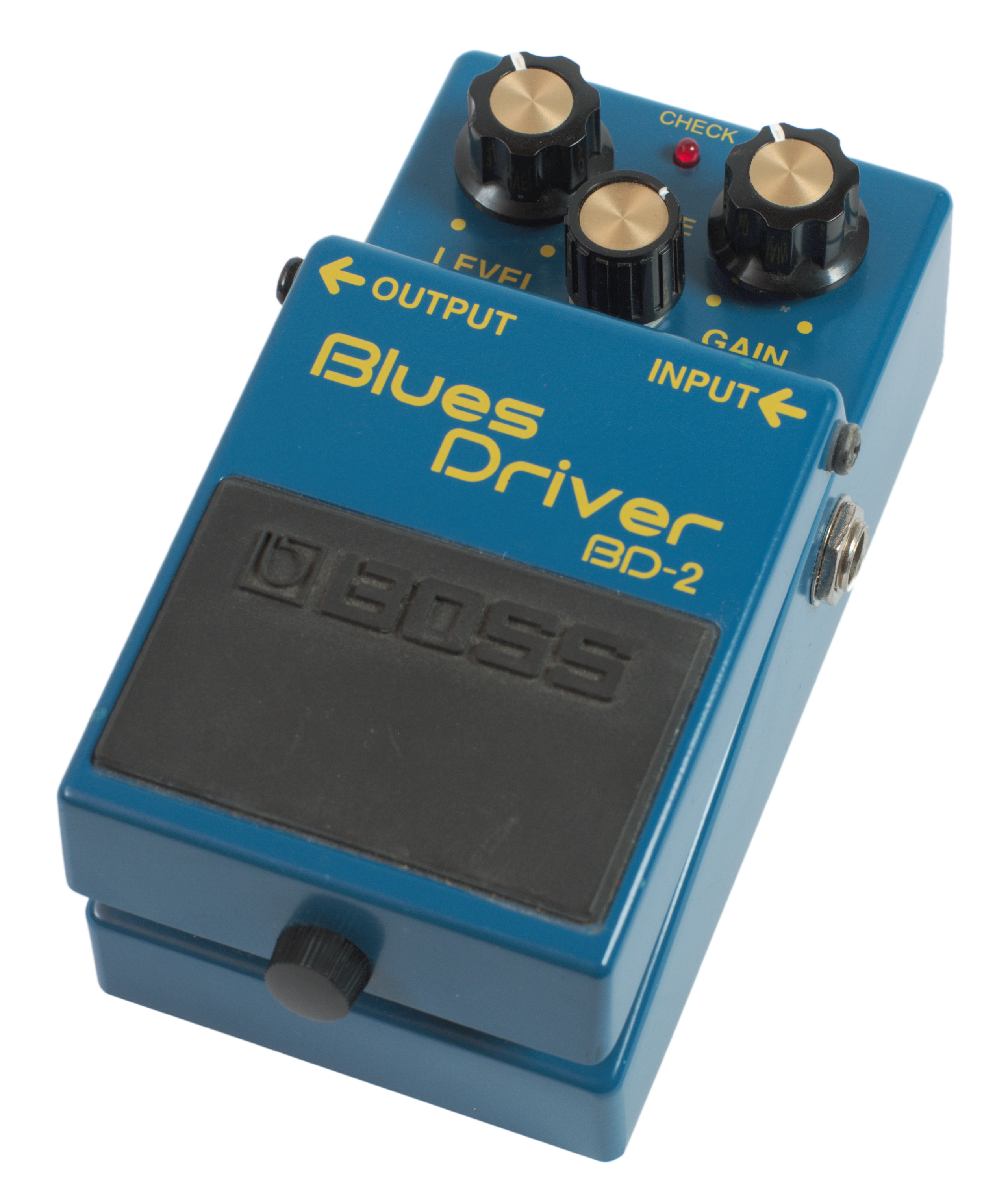 A BOSS Blues Driver BD-2 Overdrive pedal